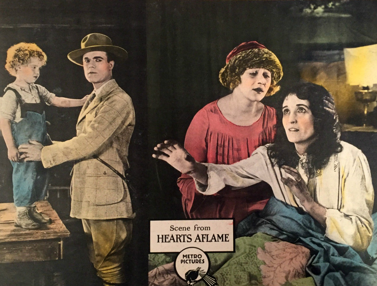 Lobby card for the American drama film Hearts Aflame (1923) with Richard Headrick, Craig Ward, Anna Q. Nilsson, and an unidentified actress.